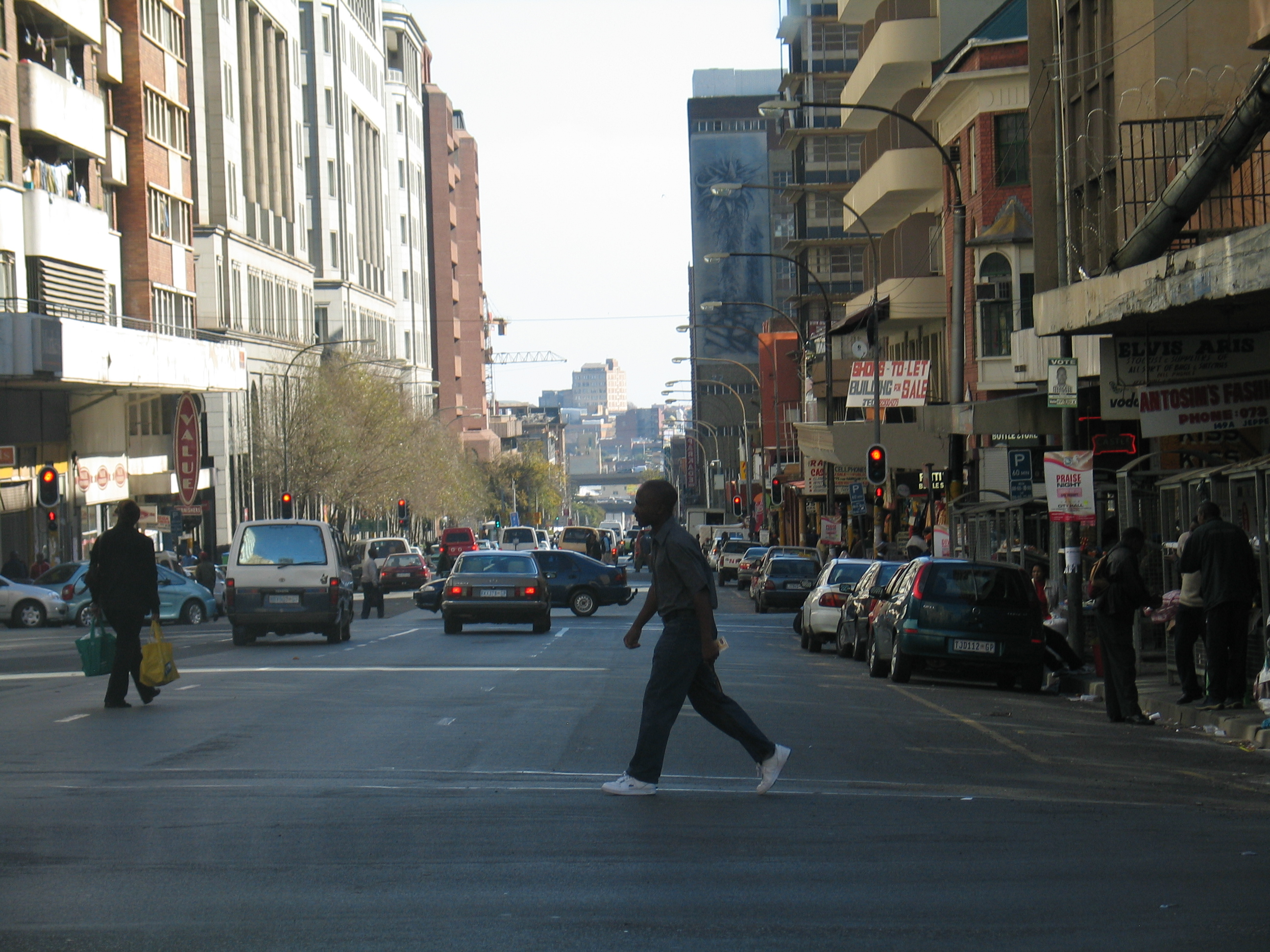 Street scene in Hillbrow, Johannesburg, South Africa